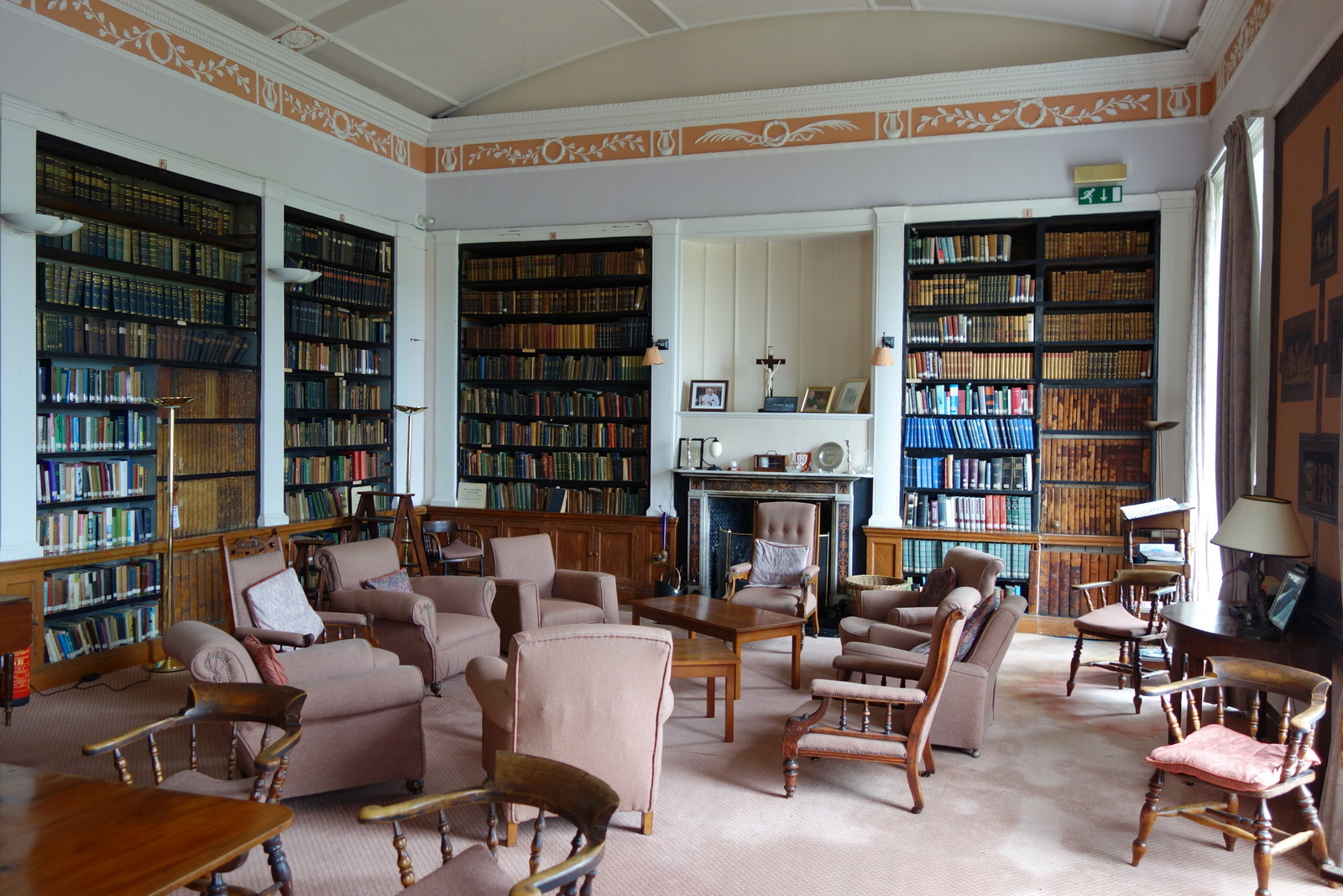 Clongowes Wood College is a voluntary secondary boarding school for boys, located near Clane in County Kildare, Ireland. Founded by the Society of Jesus (Jesuits) in 1814, it is one of Ireland's oldest Catholic schools, and featured prominently in James Joyce's semi-autobiographical novel A Portrait of the Artist as a Young Man. One of five Jesuit schools in Ireland, it had 450 students in 2011/2012 when the fees were €16800 per annum